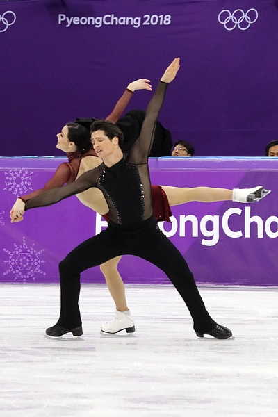 Tessa Virtue and Scott Moir at the 2018 Winter Olympic Games in PyeongChang